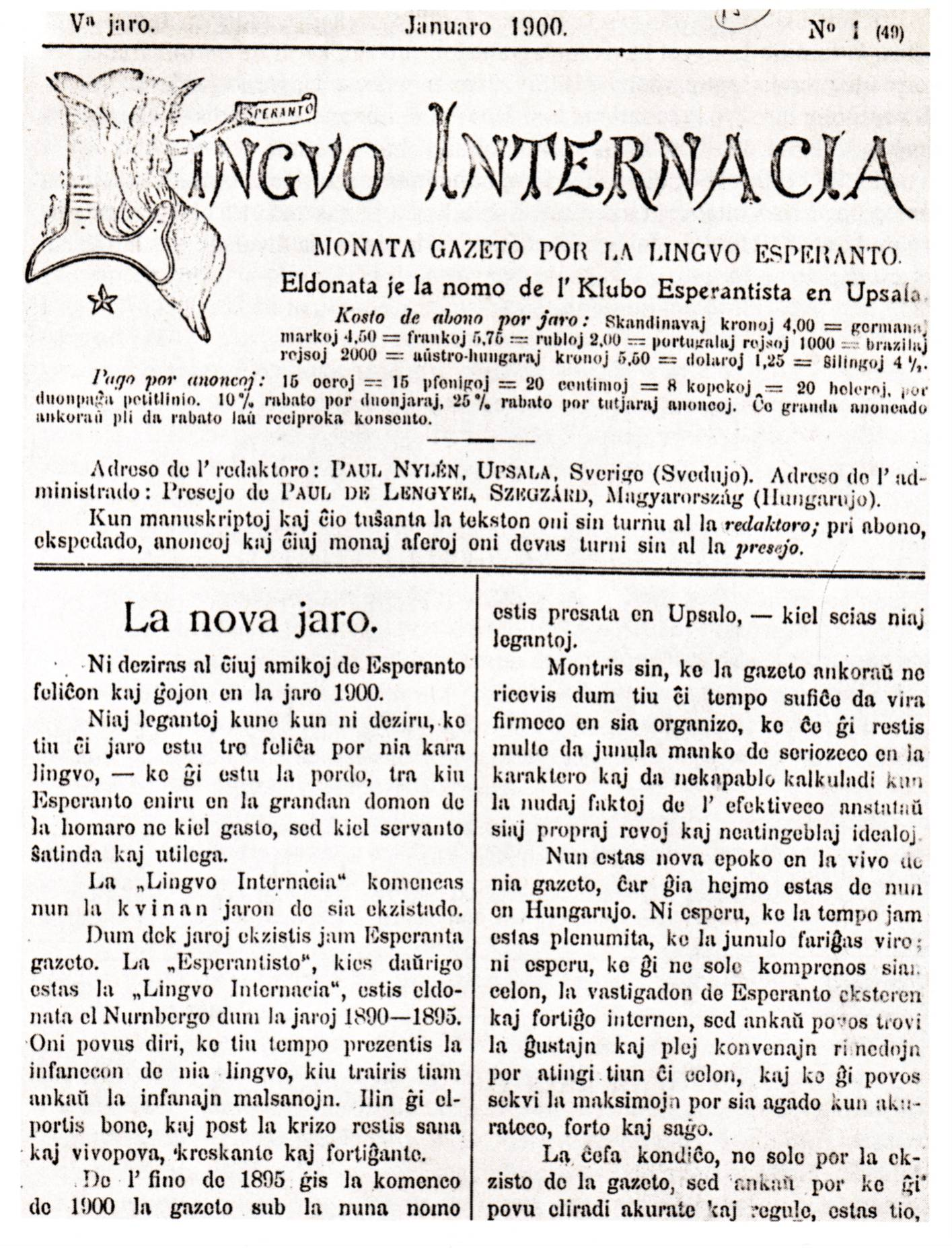 Lingvo Internacia (1900) Esperanto magazine